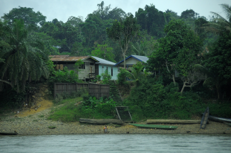 Long Lejau at Kayan river